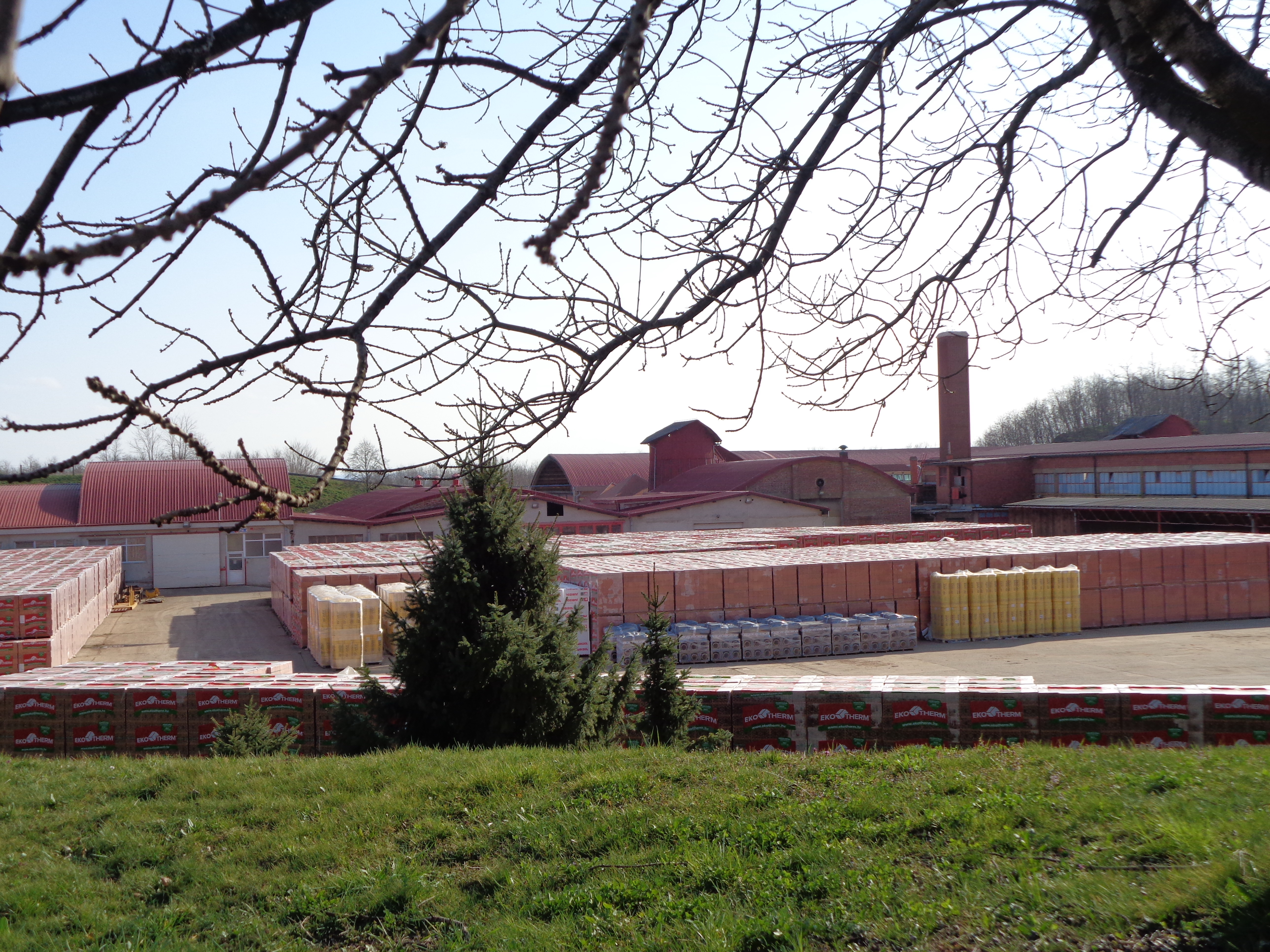 EKO Međimurje brick factory in Šenkovec, Medjimurie County, Croatia - open air warehouseHrvatski: EKO Međimurje, ciglana u Šenkovcu, Međimurska županija, Hrvatska - stovarište na otvorenom